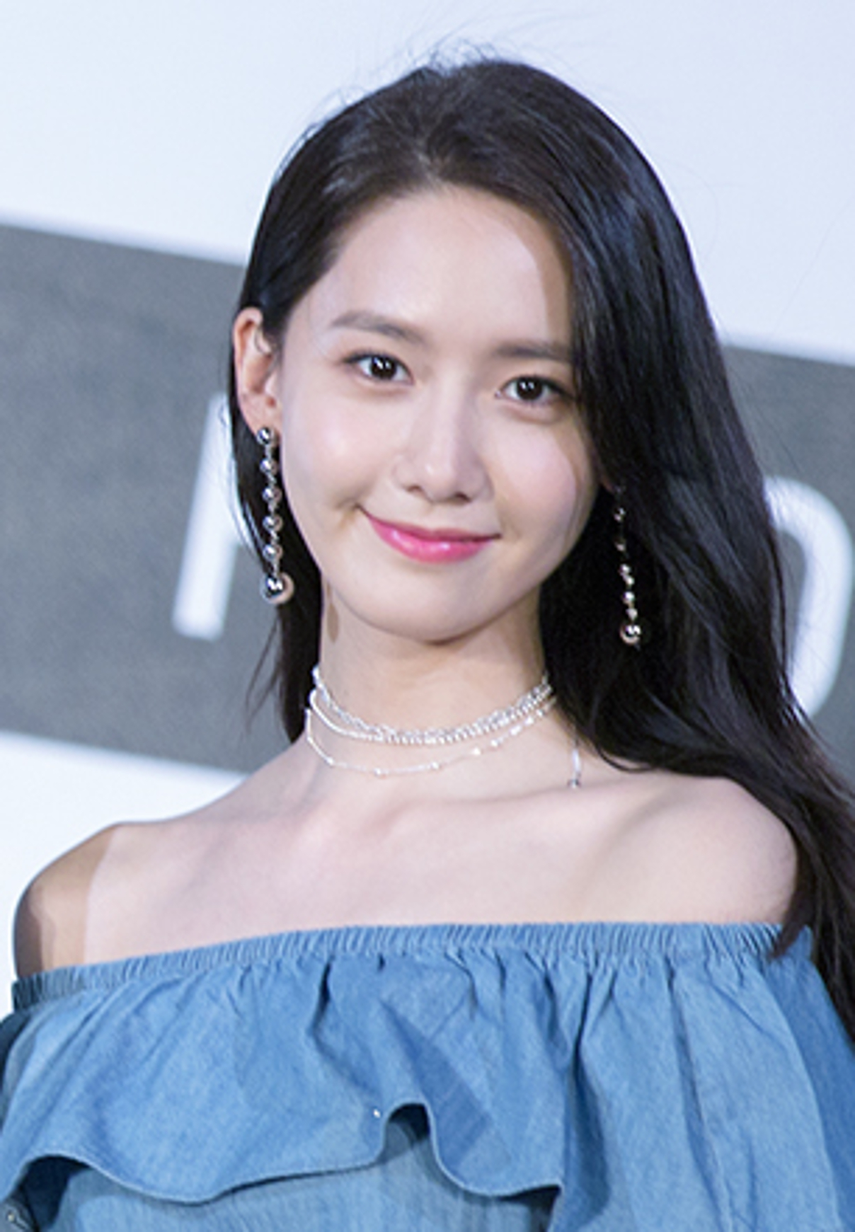 Im Yoon-ah on July 22, 2017.